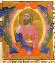 Barbarossa